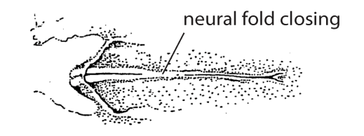 Standard Event System character depiction